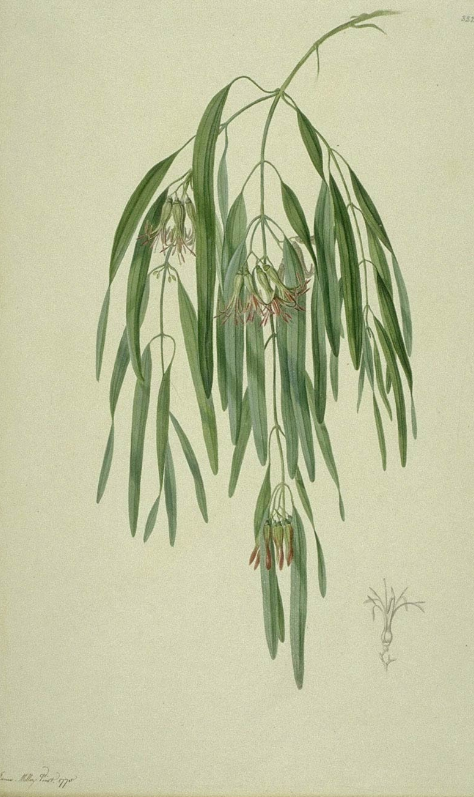 Amyema biniflora: Natural History Museum, London, The Endeavour Botanical Illustrations, The Endeavour Botanical Illustrations, (1775) [J.F. Miller] Place: Endeavour River Artist: James Miller Format: Finished Drawing Medium: Watercolours On Paper Dimensions: 545 x 350/430 mm Collection: A.0007./.0332./.0002 Specimen: 2 sheets, Endeavour River. Notes Recto: [ink] 'James Miller pinx't 1775.' Notes Verso: [pencil] 'Loranthus squarrosus' [unknown]; [ink] 'Endeavours River' [unknown]